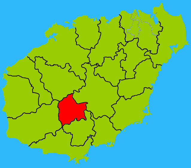 Hainan subdivisions - Wuzhishan